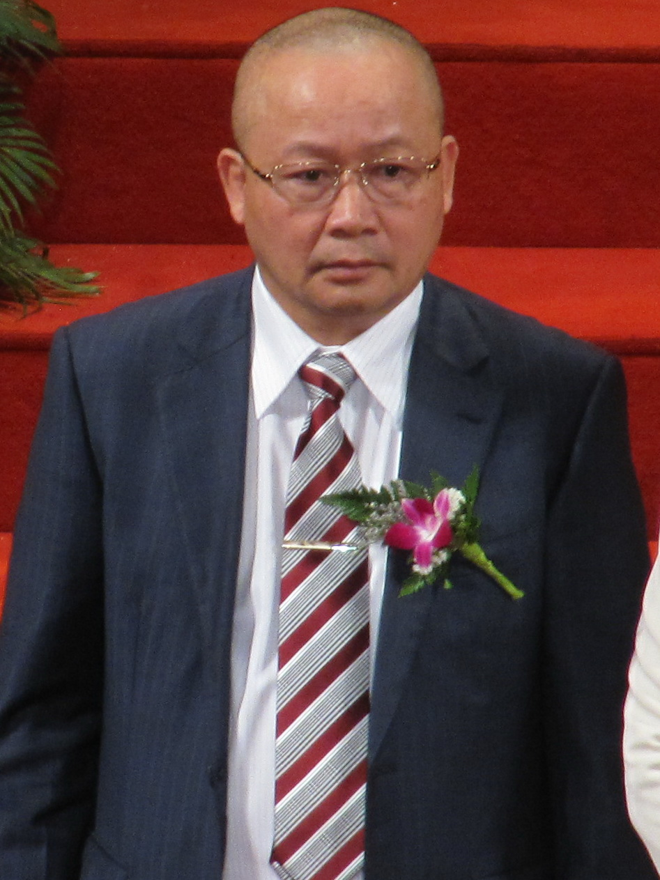 Nguyễn Tăng Cường, recipient of the 2010 Ho Chi Minh Prize for Science & Technology